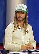 Breakthrough Skateboarder from Doggtown, Tony Alva